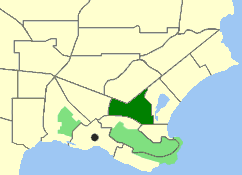 Map of the suburb of Mira Mar in Albany, Western Australia.